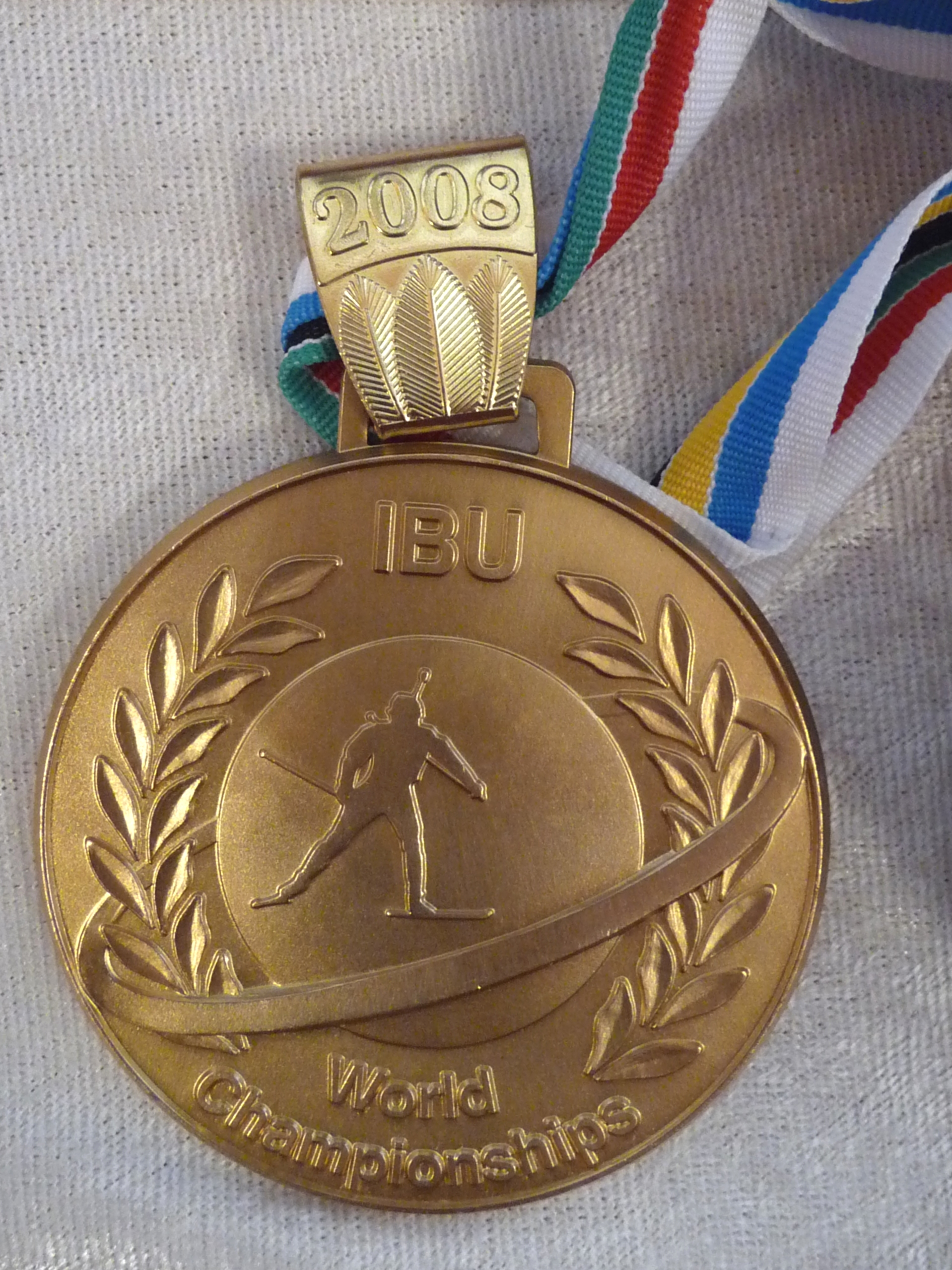 Gold medal of biathlete Magdalena Neuner in the pursuit race at the 2008 Junior World Championships at Ruhpolding (Germany), temporarily for display at town hall, Wallgau, Germany